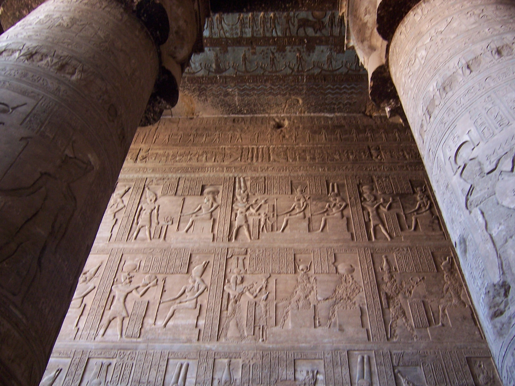 Dendera Hathor Temple Complex location: near Qina, Egypt